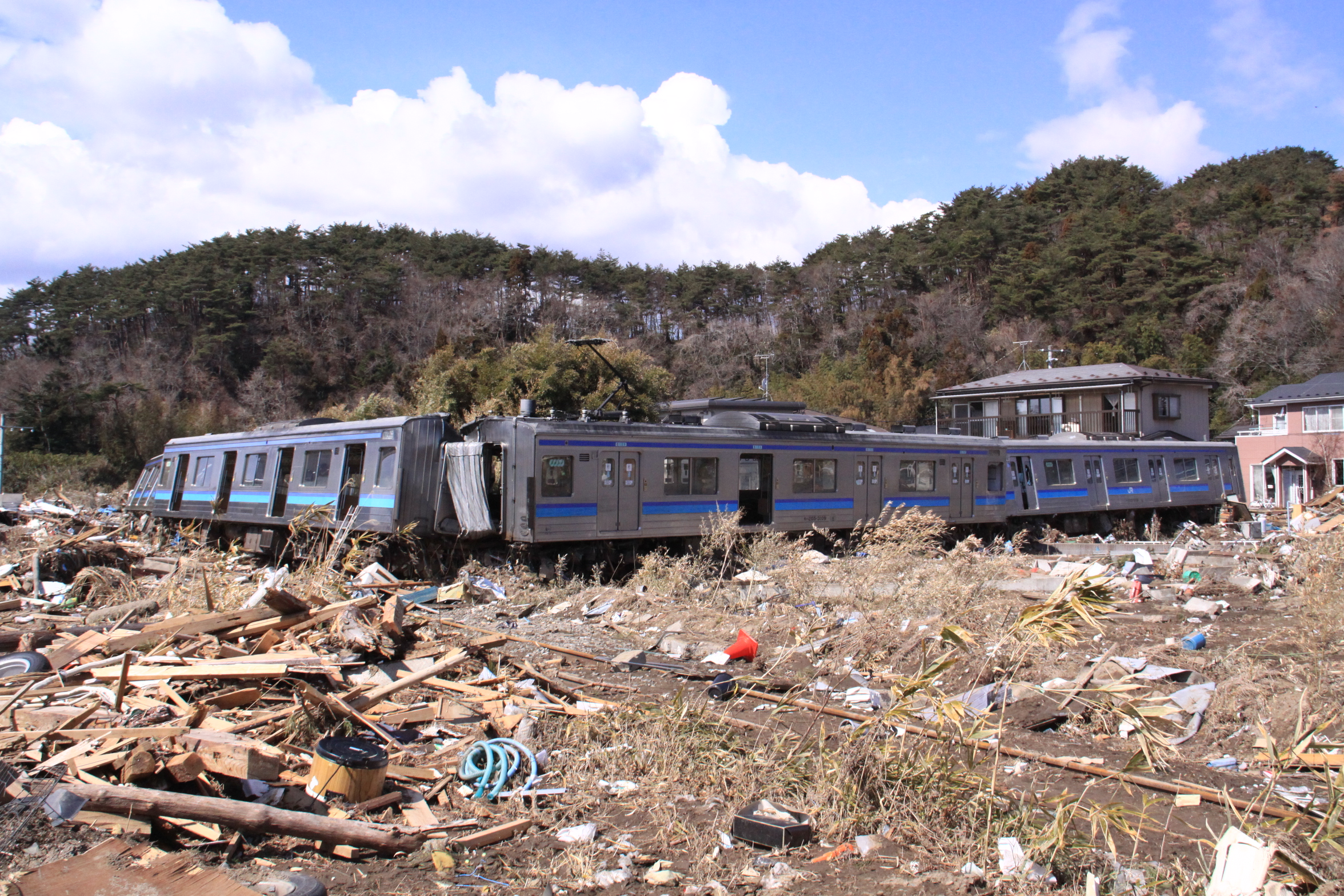 JR East 205 series Senseki Line EMU derailed and damaged by the 11 March 2011 tsunami in Higashimatsushima, Miyagi